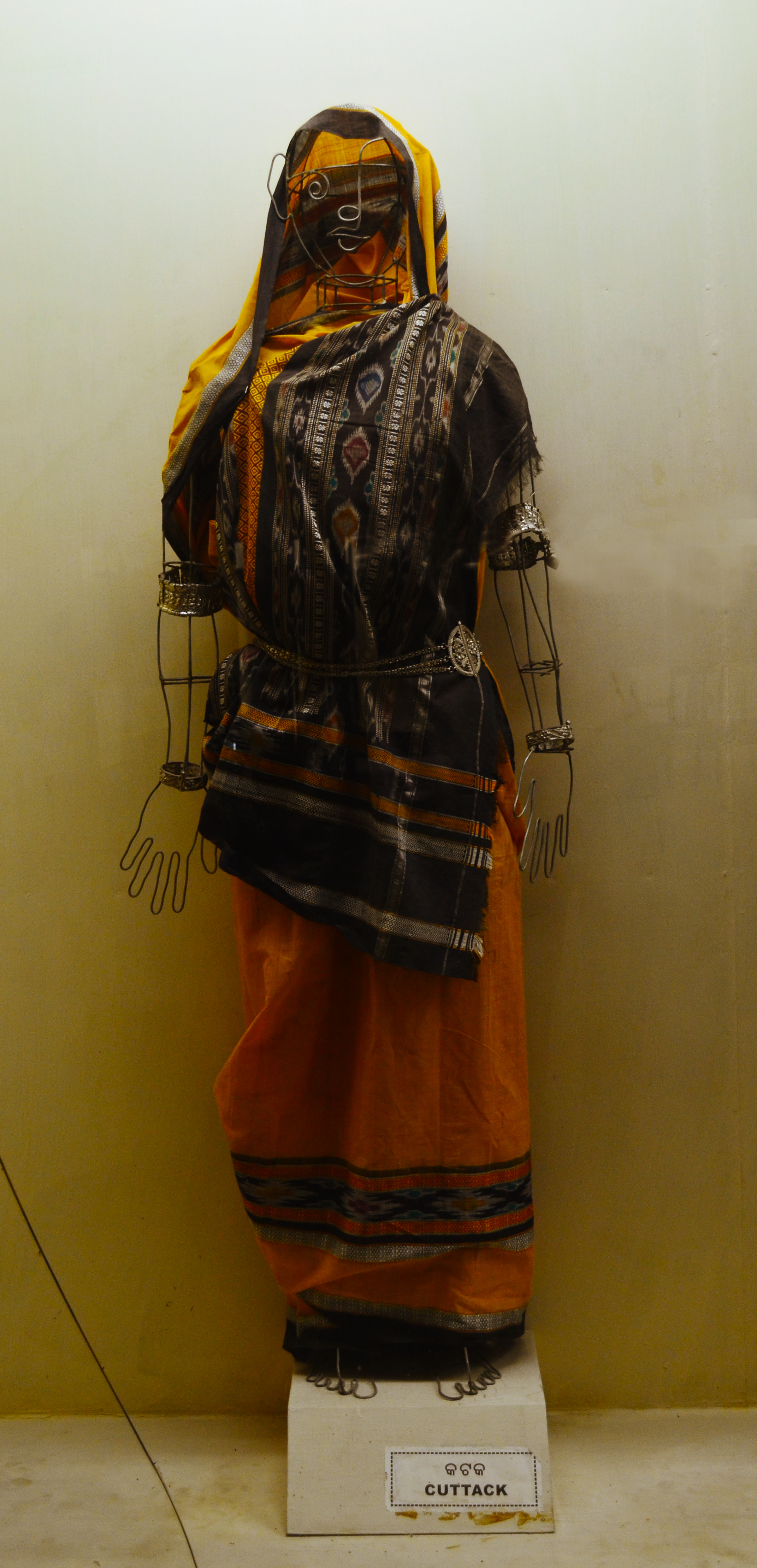 Sari draping style of Cuttack, Odisha state museum, Bhubaneswar 2013